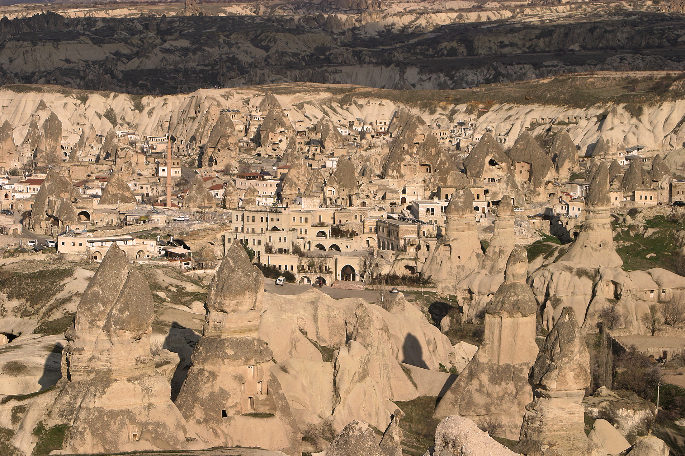 Göreme Valley in Cappadocia.Cappadocia, a region in central Turkey, is known for its Göreme National Park, which was added to the UNESCO World Heritage List in 1985. The first period of settlement within the region reaches to Roman period of Christian era. The area is also famous for its fairy chimneys rock formations, some of which reach 40 meters (130 feet) in height. Over thousands of years, wind and rain eroded layers of consolidated volcanic ash, or tuff, to form the sweeping landscape. From the 4th to 13th century CE, occupants of the area dug tunnels into the exposed rock face to build residences, stores, and churches which are home to irreplaceable Byzantine art.